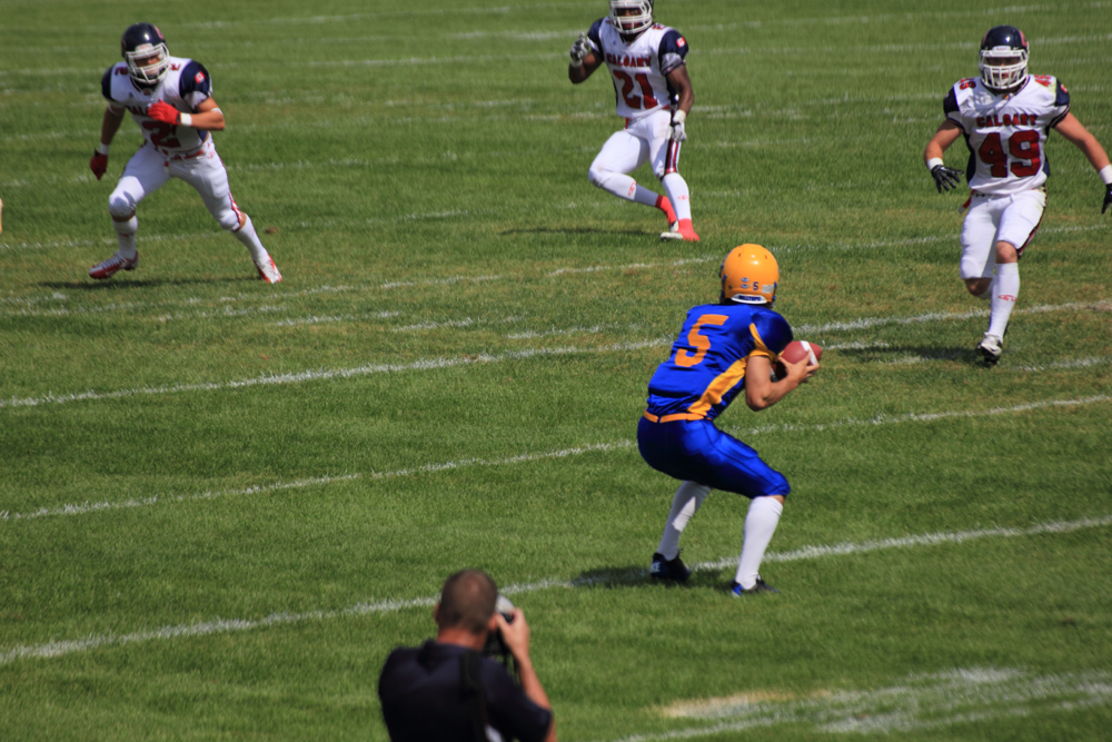 August 12 1:00 pm season starter game for the Hilltops in the Prairie Football Conference. Canadian Junior Football League teams included Calgary and Saskatoon. Calgary Colts were the visitors at Gordie Howe Bowl home to the Saskatoon Hilltops In the last minutes of the game Saskatoon was ahead by one point, Calgary kicked a field goal to win the game by two points. The game ended 32-30 in favour of the Colts. Amazing play pictured here by Saskatoon Hilltop quarterback number 8 Matt Karpinka. A lateral throw to the wide receiver number 5 Jared Andreychuk who threw it downfield for a catch by number 28 Kyle McGinnis for a reception and run!!! You may email for a larger rendition of this image or for other game photos. Photograph attribution Julia Adamson